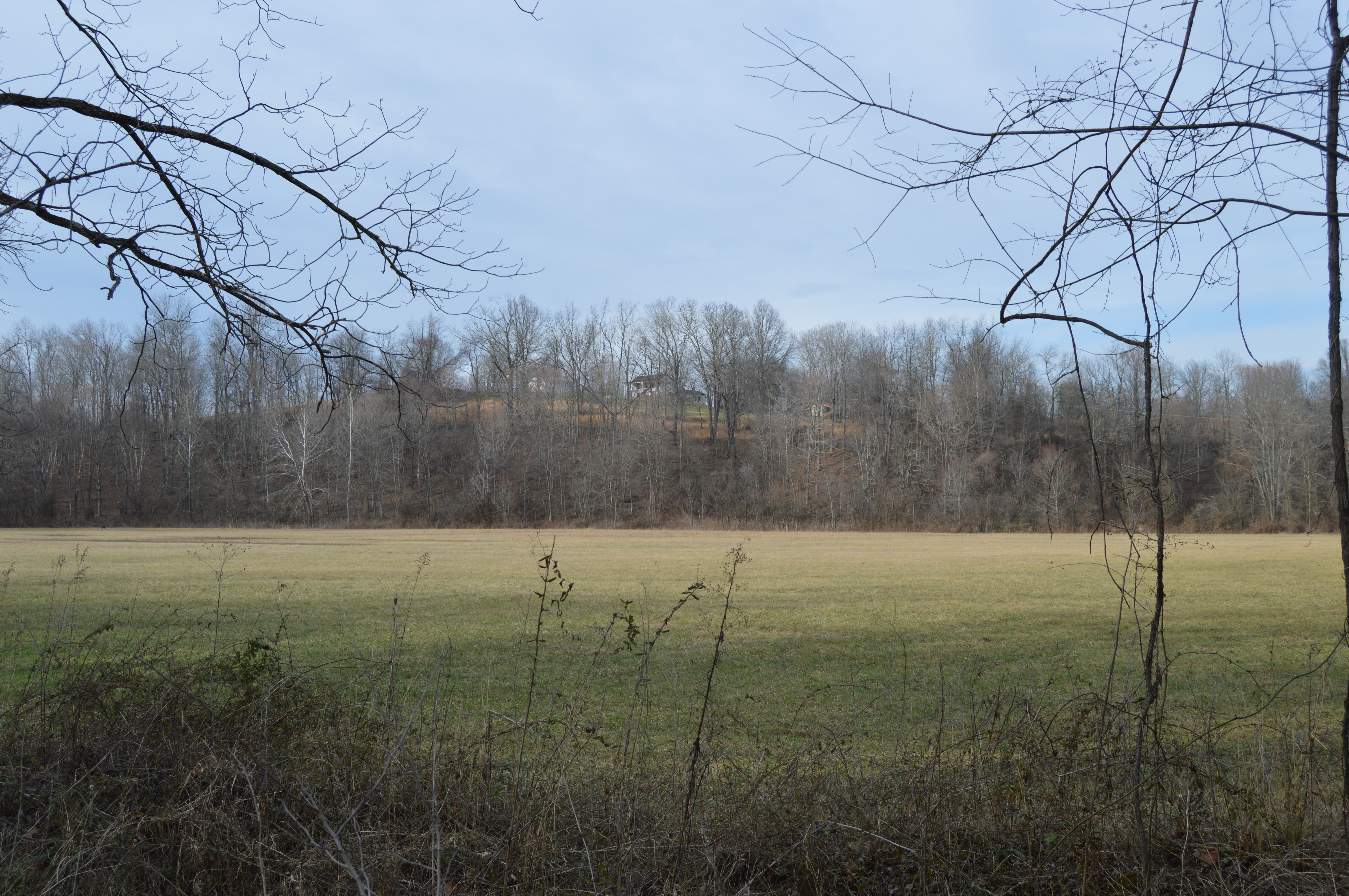 Fields on the northern side of Cambria Furnace Road, immediately west of its crossing of Cambria Creek, in far northern Greenfield Township, Gallia County, Ohio, United States. The trees in the distance mark a county boundary — everything past them is within Madison Township in Jackson County.